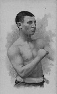 Paddy Duffy, american welterwight boxer.